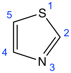 Priority system of numbering thiazoles.